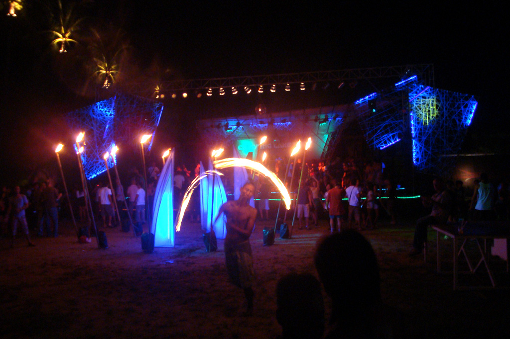 Fire Show at the Lake View Arena Black Moon Party, Chaweng, Koh Samui, Thailand